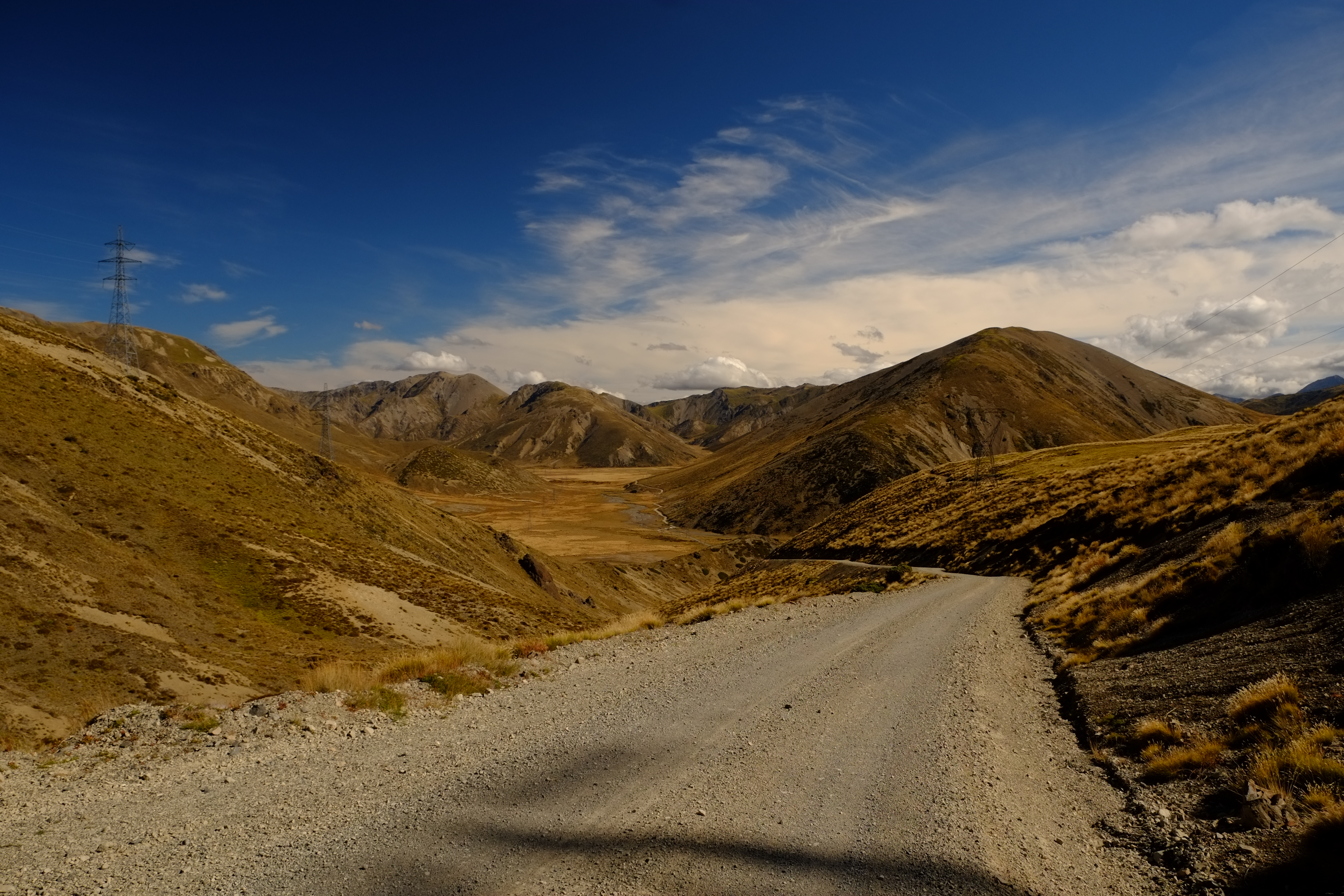 the road beyond Lake Tennyson